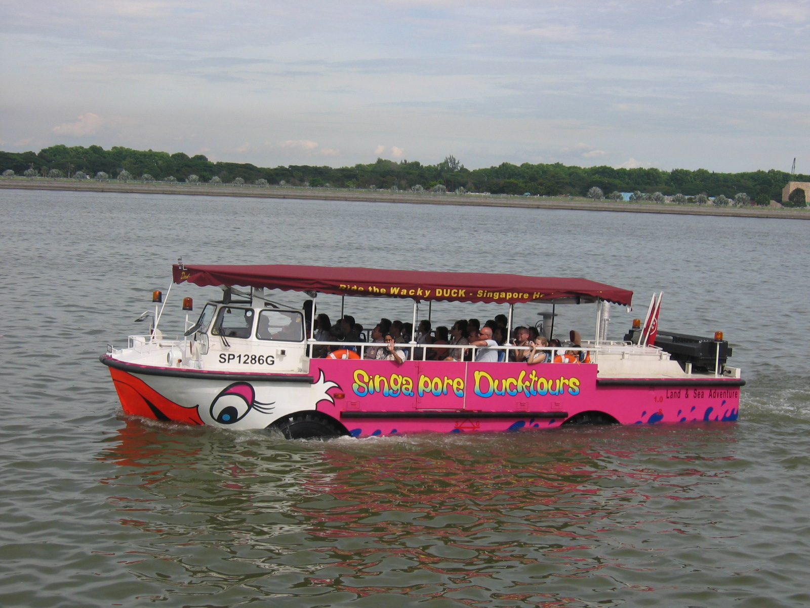 A Singapore Ducktour "Duck". Taken by Terence Ong in April 2006.